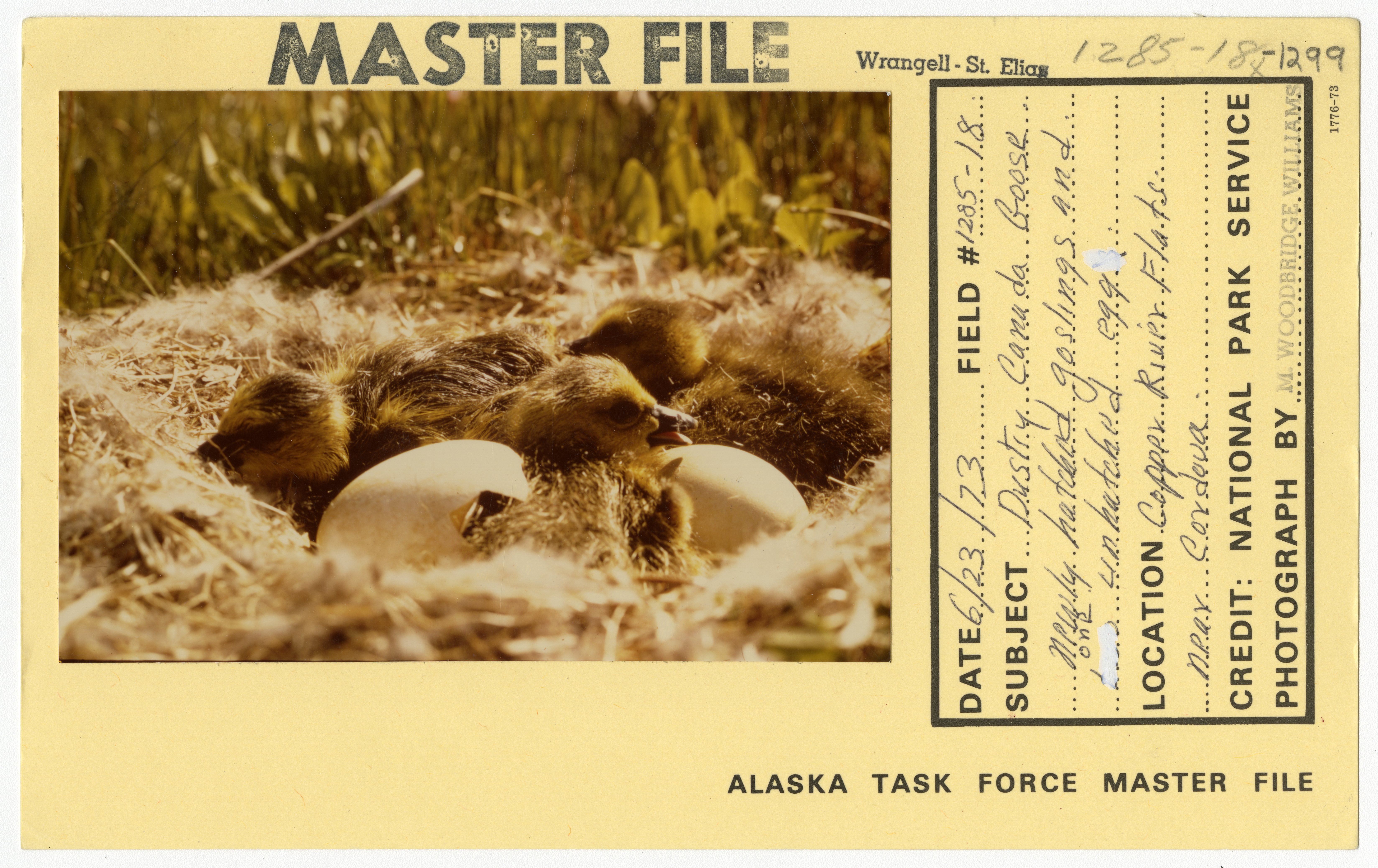 Creator(s): Department of the Interior. National Park Service. Alaska Region. 12/2/1980- (Most Recent) Department of the Interior. National Park Service. Pacific Northwest Region. 1970-1995 (Predecessor) Series: Alaska Task Force Photographs, 1972 - 1976 Record Group Record Group 79: Records of the National Park Service, 1785 - 2006 Production Date: 1972 - 1976 Access Restriction(s):Unrestricted Use Restriction(s):Unrestricted Contact(s): National Archives at Seattle (RW-SE) 6125 Sand Point Way NE Seattle, WA 98115-7999 Phone: 206-336-5115 Fax: 206-336-5112 National Archives Identifier: 42205498 Local Identifier: SEAL-609 Persistent URL